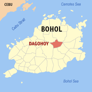 Map of Bohol showing the location of Dagohoy